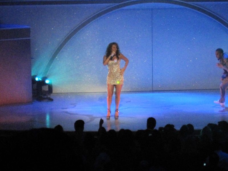 As one of the few idols of my earlier years, Mariah Carey holds a special place in my heart. And with the passing of my other early idols - Michael Jackson in 2009, Whitney Houston in 2012 - Mariah Carey is also the last early idol of mine who is still alive. Mariah Carey was also the first recording artist I managed to meet in person, in 1994 - and until 2006, the only one. Any Mariah Carey photo from non-official sources is worth savoring, as she is very particular about enforcing a no-photos policy at public appearances. Despite my rather numerous experiences enjoying Mariah Carey in person, there are only two photos worth sharing as a result. (The other one dates way back to 1995.) I am attending the second show of her four-show mini-residency at The Palms Hotel & Casino. This is my fourth time taking in a show of hers. I particularly like to see her in Vegas, as I tend to win big at the gaming tables when her music plays on the PA system. Yes, Mariah Carey is my Vegas lady luck, as I found out the previous time - September 2006 at MGM Grand. Not exactly one of her better moments, I must admit. The playlist and presentation seemed way too hushed and not well thought over. But at least I was happy to hear a cover of the 1985 Foreigner hit "I Want to Know What Love Is," which turned out to be much better than expected, as well as to burst into tears as Mariah sang "Hero," just like three times prior. In addition to this show, I experienced Mariah Carey in person on the following dates: 21 November 1994, New York City (meet-and-greet, my first-ever meeting with a music celebrity) 10 October 1995, New York City 21 March 2000, San Jose 30 September 2006, Las Vegas 21 February 2010, Los Angeles